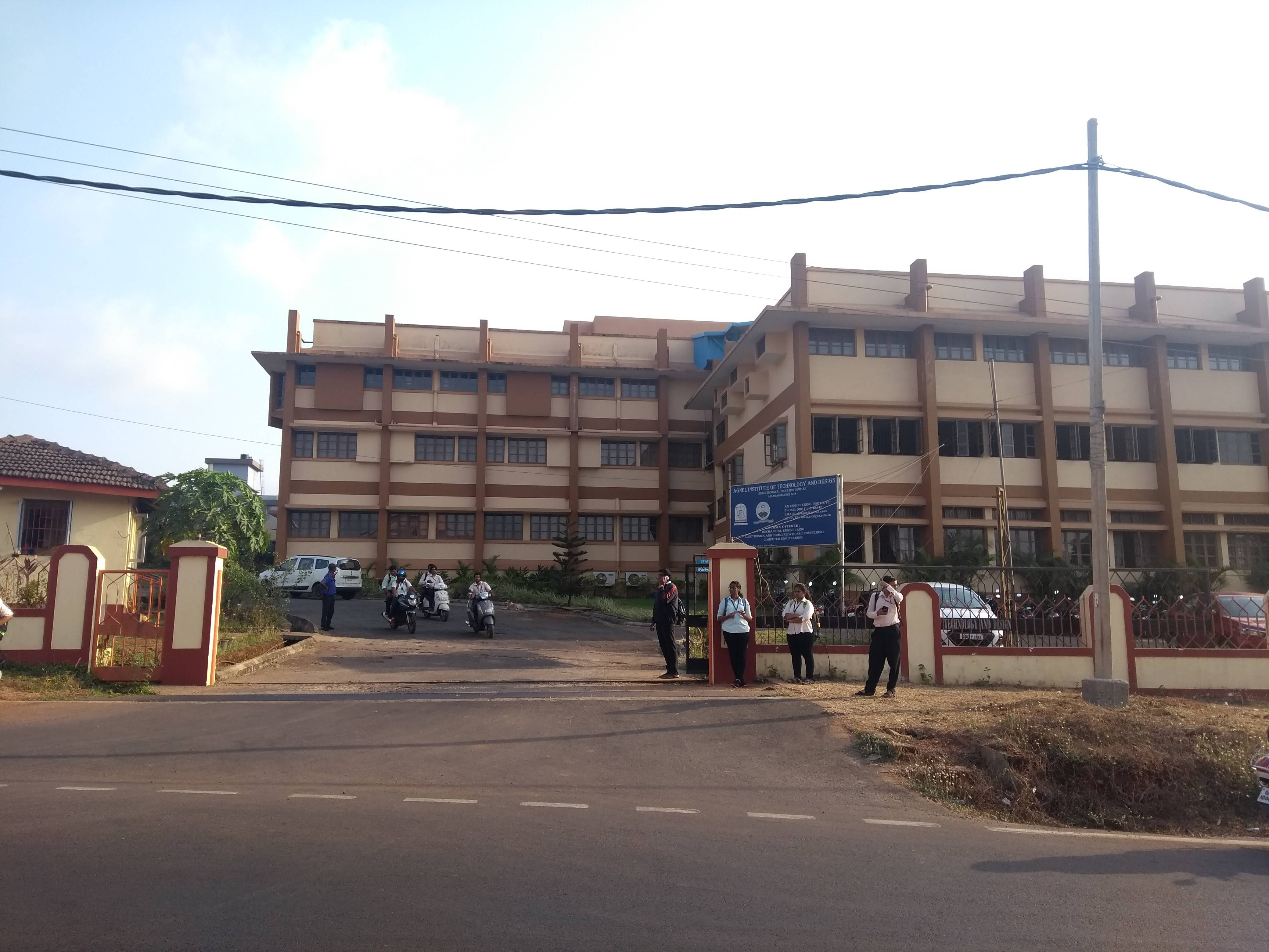 This is a picture of the college Agnel Institute of Technology and Design, Goa.